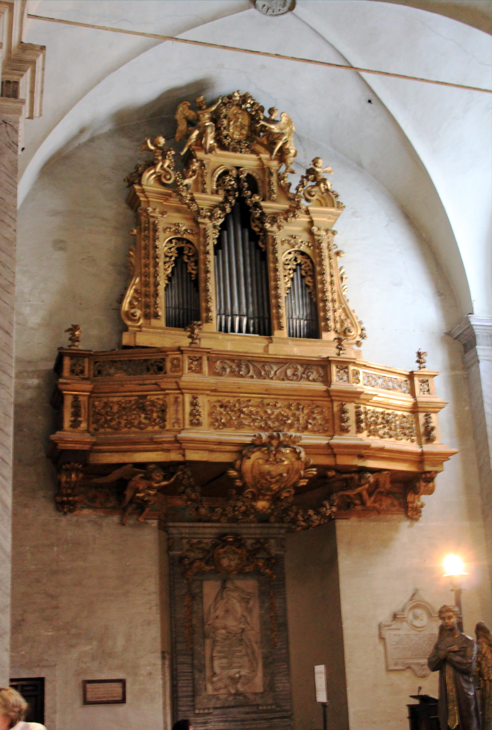 Organs in basilica San Pietro in Vincoli, Rome, Italy